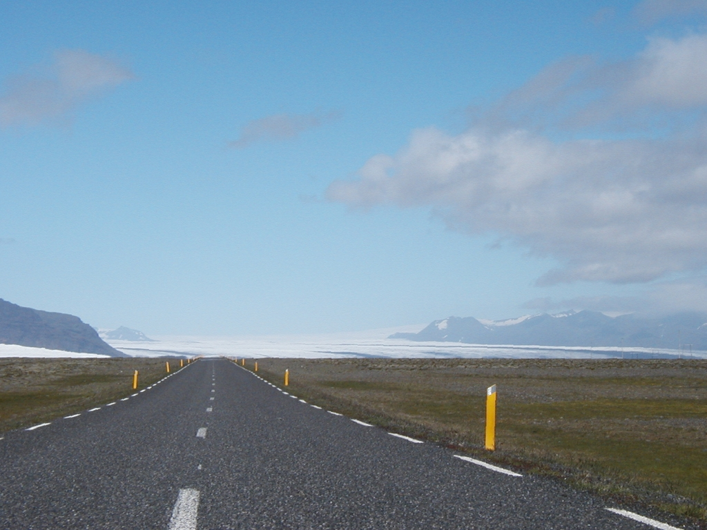 From the road to Jokullarsons Mai 2004 M. Disdero